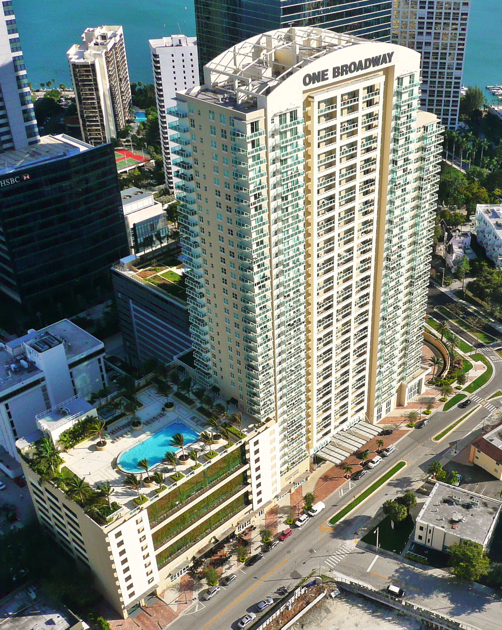 Digital photo taken by Marc Averette. One Broadway in Downtown Miami, Florida, United States.